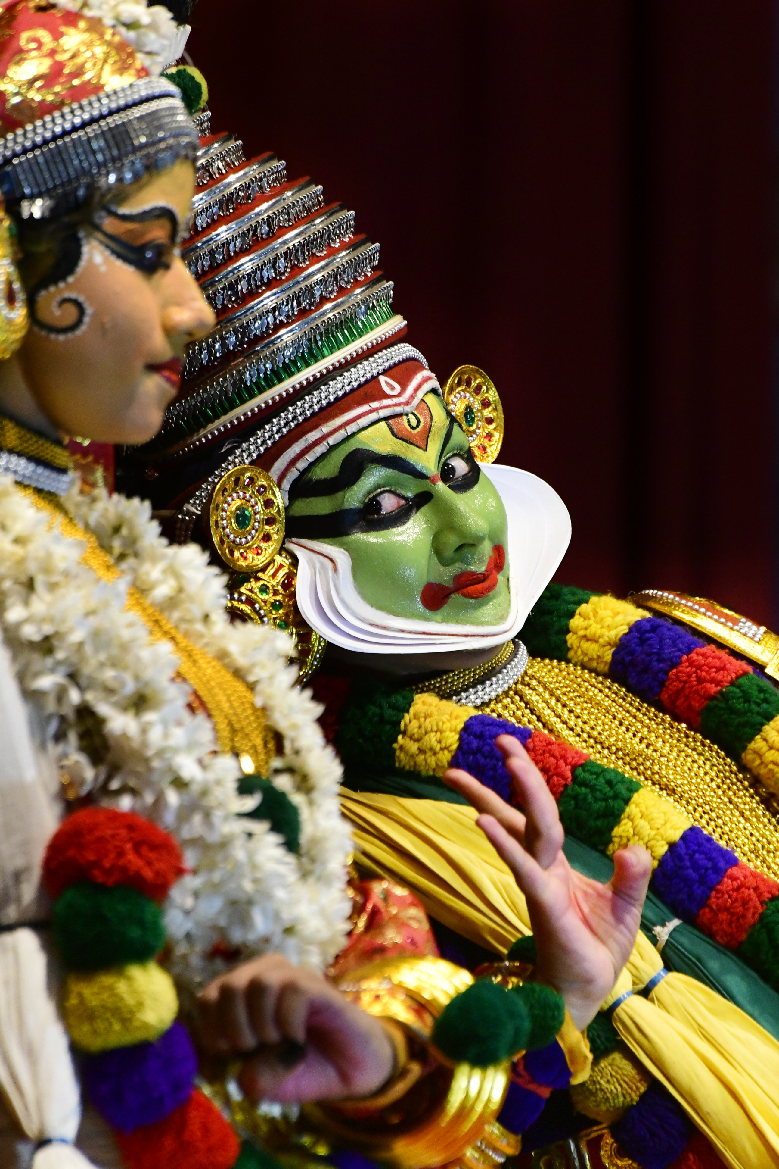 Kerala state school kalothsavam 2019 was held at Kanjangad, Kasaragodu